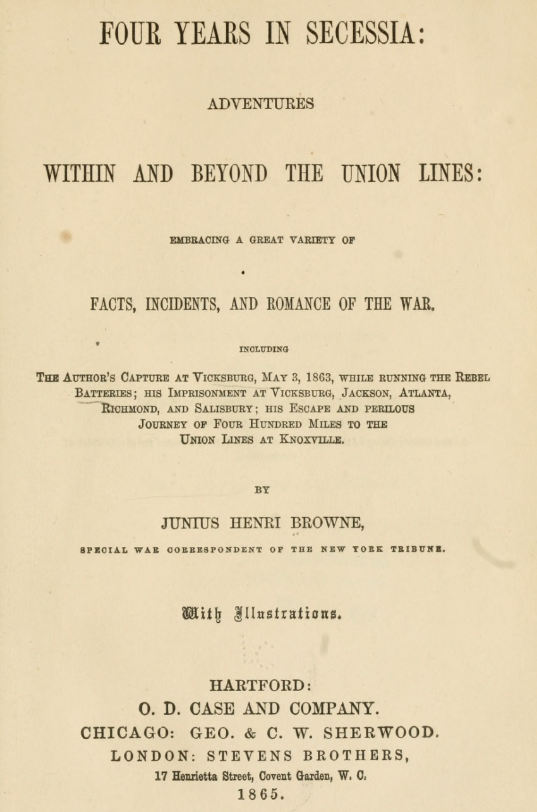 Four Years In Seccessia: Adventures Within And Beyond the Union Lines. Hartford: O. D. Case and company, 1865, by Junius Henri Browne, frontpage